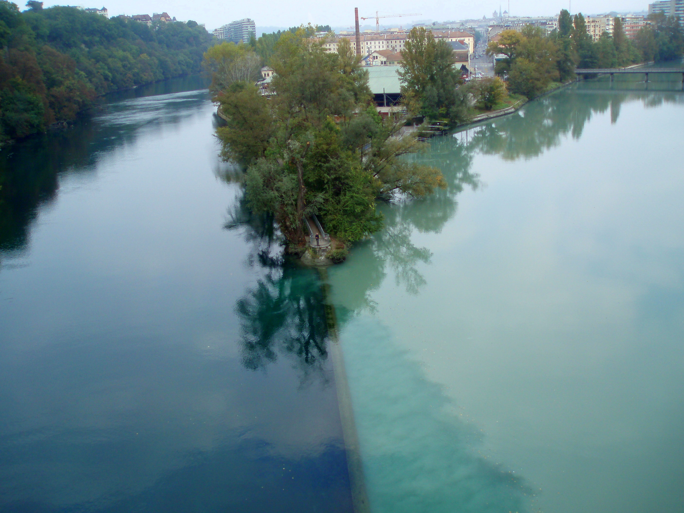 The Rhône River (left) meets the Arve River (right) in Geneva, Switzerland.